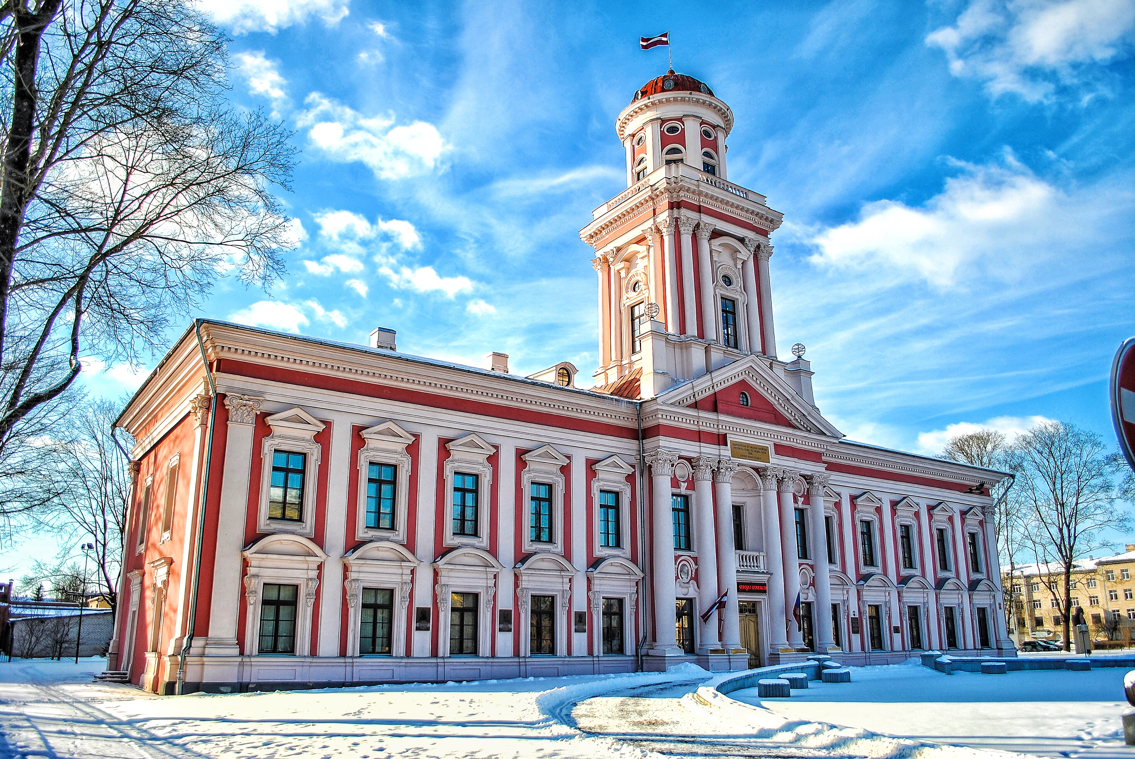 Jelgava History and Art Museum of Gederts Eliass in Jelgava, Latvia